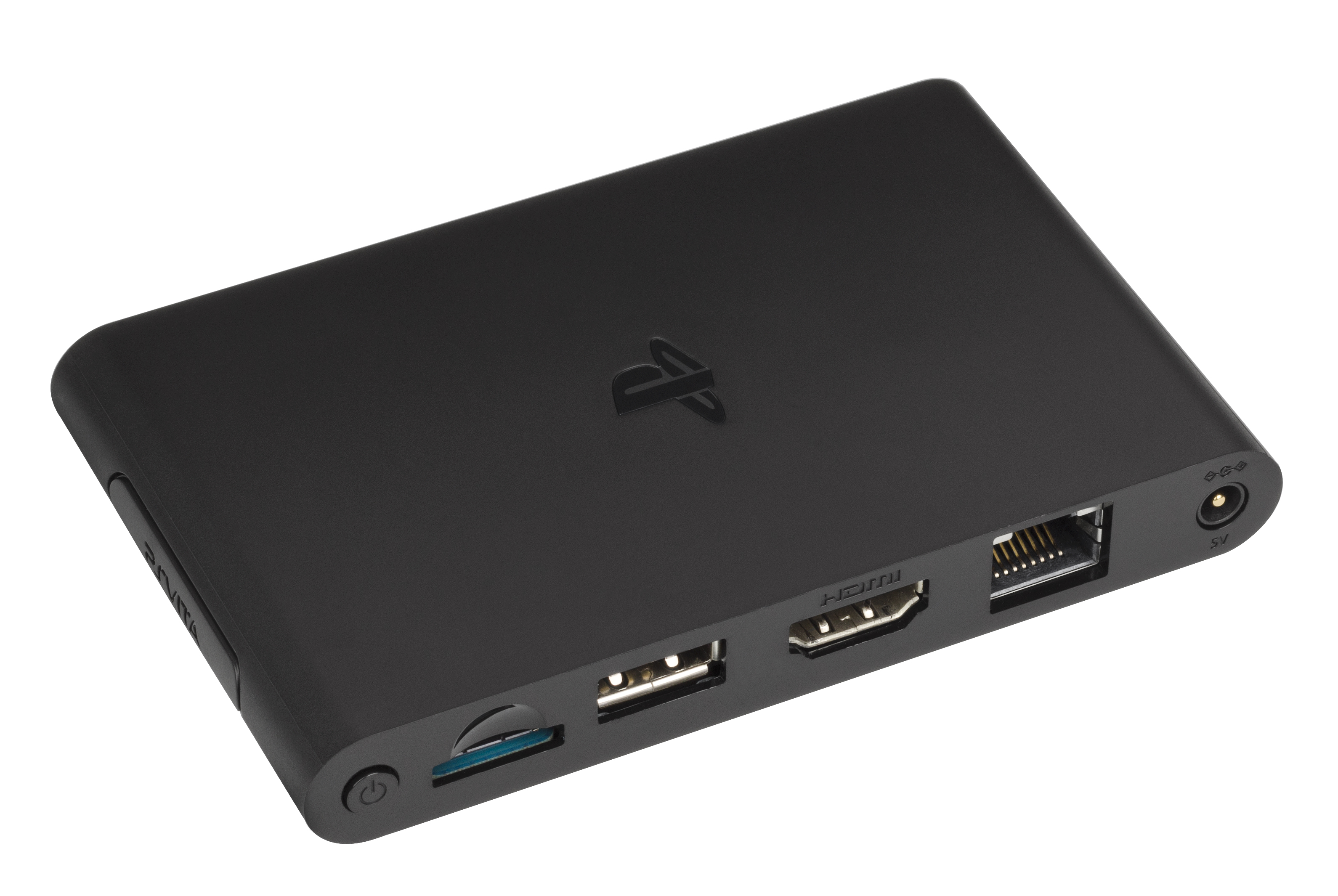 The PlayStation TV, a microconsole released by Sony in North America in 2014. The PlayStation TV (model VTE-1001) is a very small system made from the same internals as the PlayStation Vita handheld, and provides a way to play select Vita, PSP and PS One games on a television. The console can also be used to stream content from a PlayStation 4 system for remote play. Users can play with either a DualShock 3 or DualShock 4 controller. This is the back of the console. Ports and inputs from left to right: PlayStation Vita game card slot, power button, memory card slot, USB port, HDMI port, LAN port and 5V DC in.